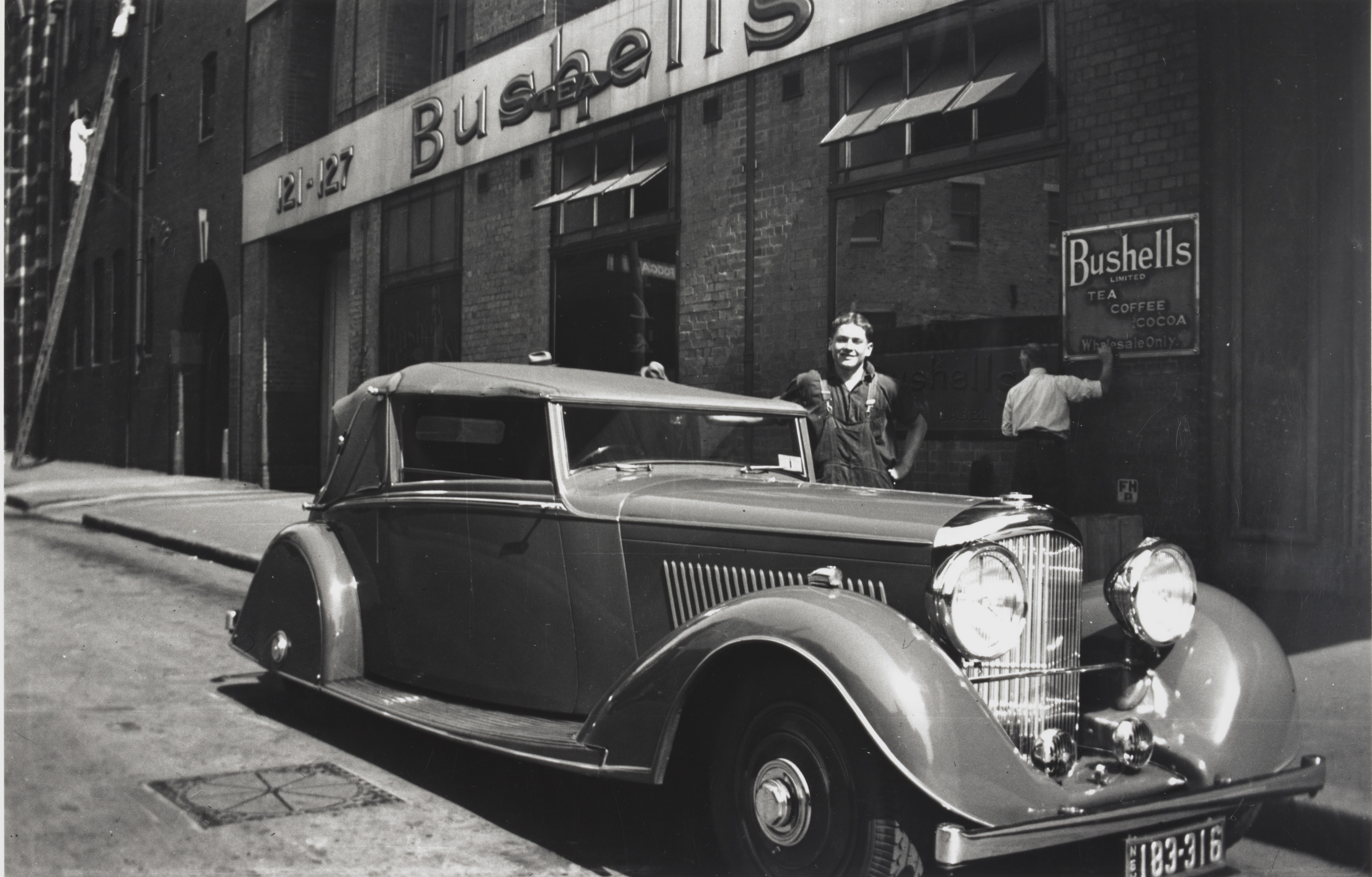 Phillip Bushell's Bentley and Factory, Harrington Street, Sydney, 1936 - 1937, photographer unknown, silver gelatine copies from vintage prints, State Library of New South Wales, PXE 1554